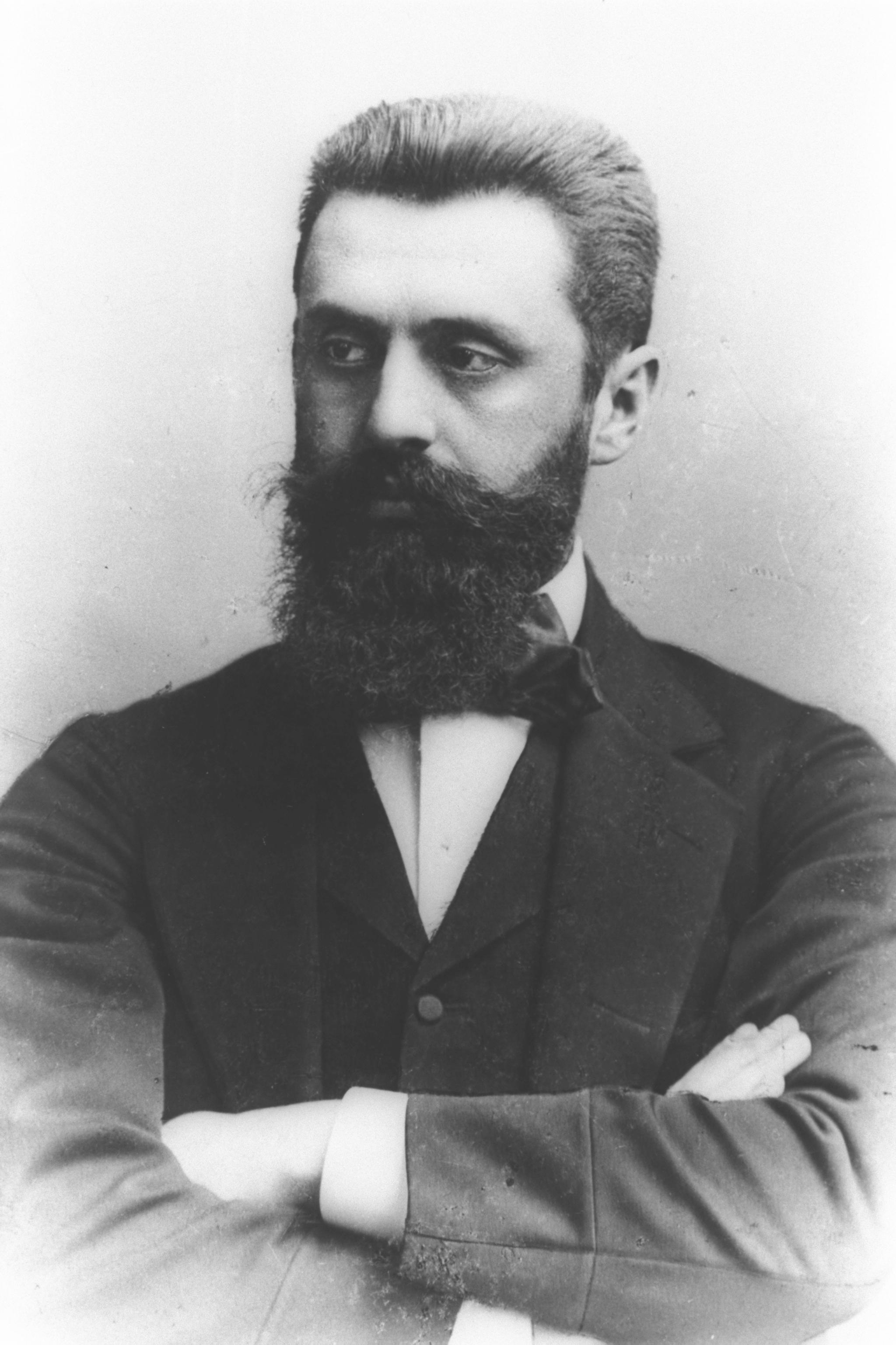 PORTRAIT OF THEODOR HERZL IN 1898. פורטרט של תיאודור הרצל - 1898